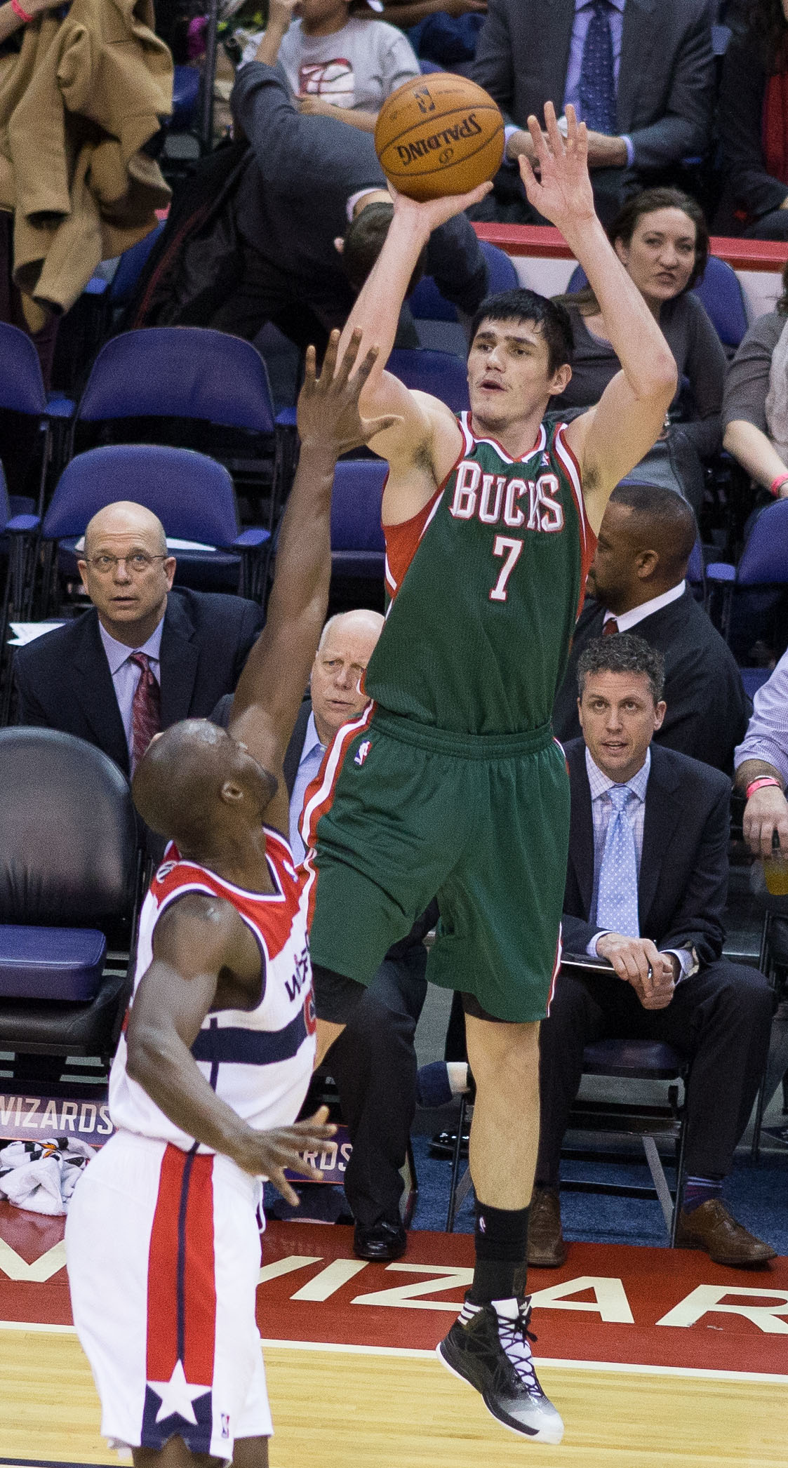 Milwaukee Bucks at Washington Wizards March 13, 2013